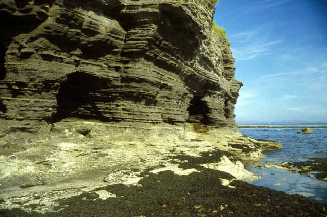 Doorin Point. Layers of Carboniferous mudstone and sandstone on the north shore of Donegal Bay